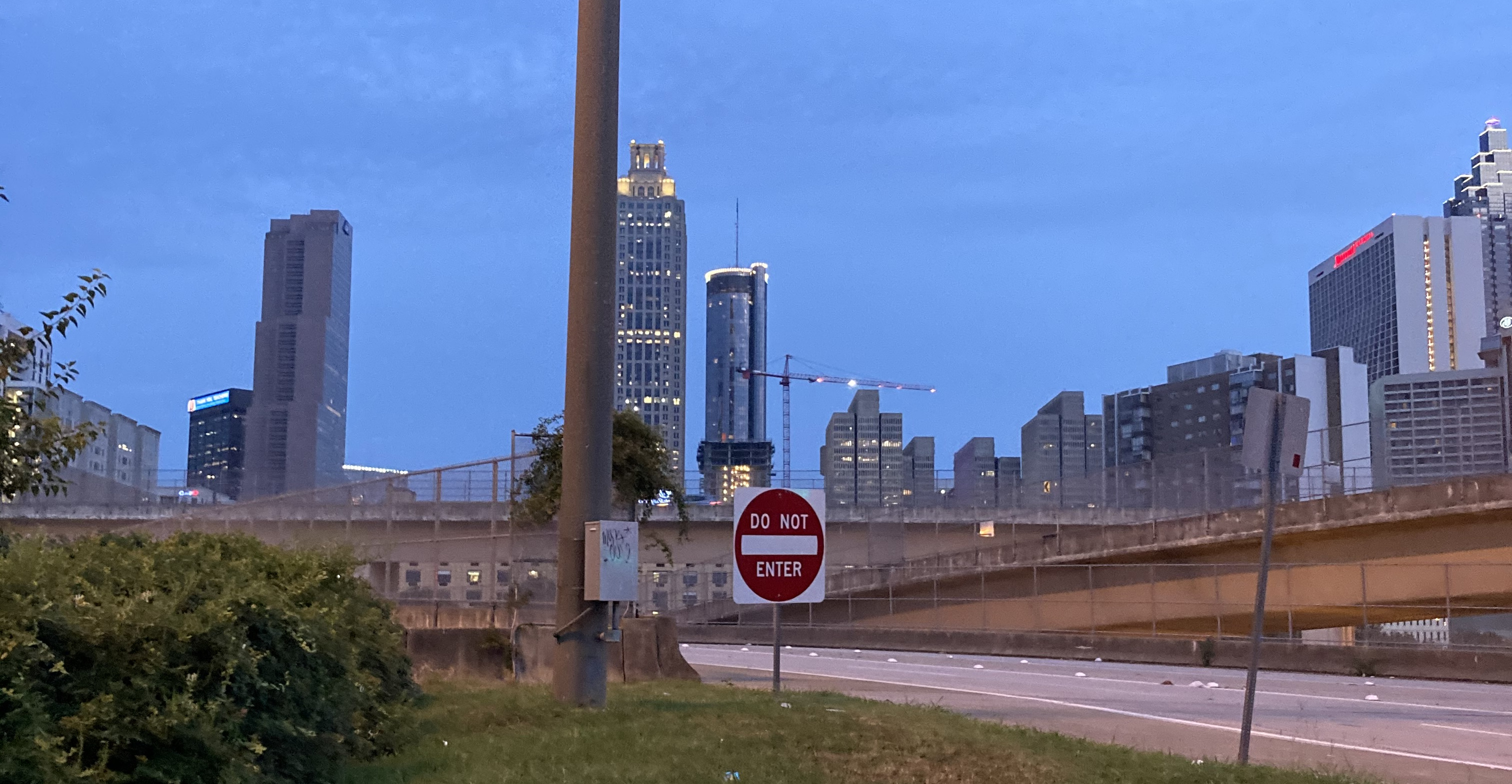 Westin Peachtree Plaza Hotel, downtown Atlanta, GA., US